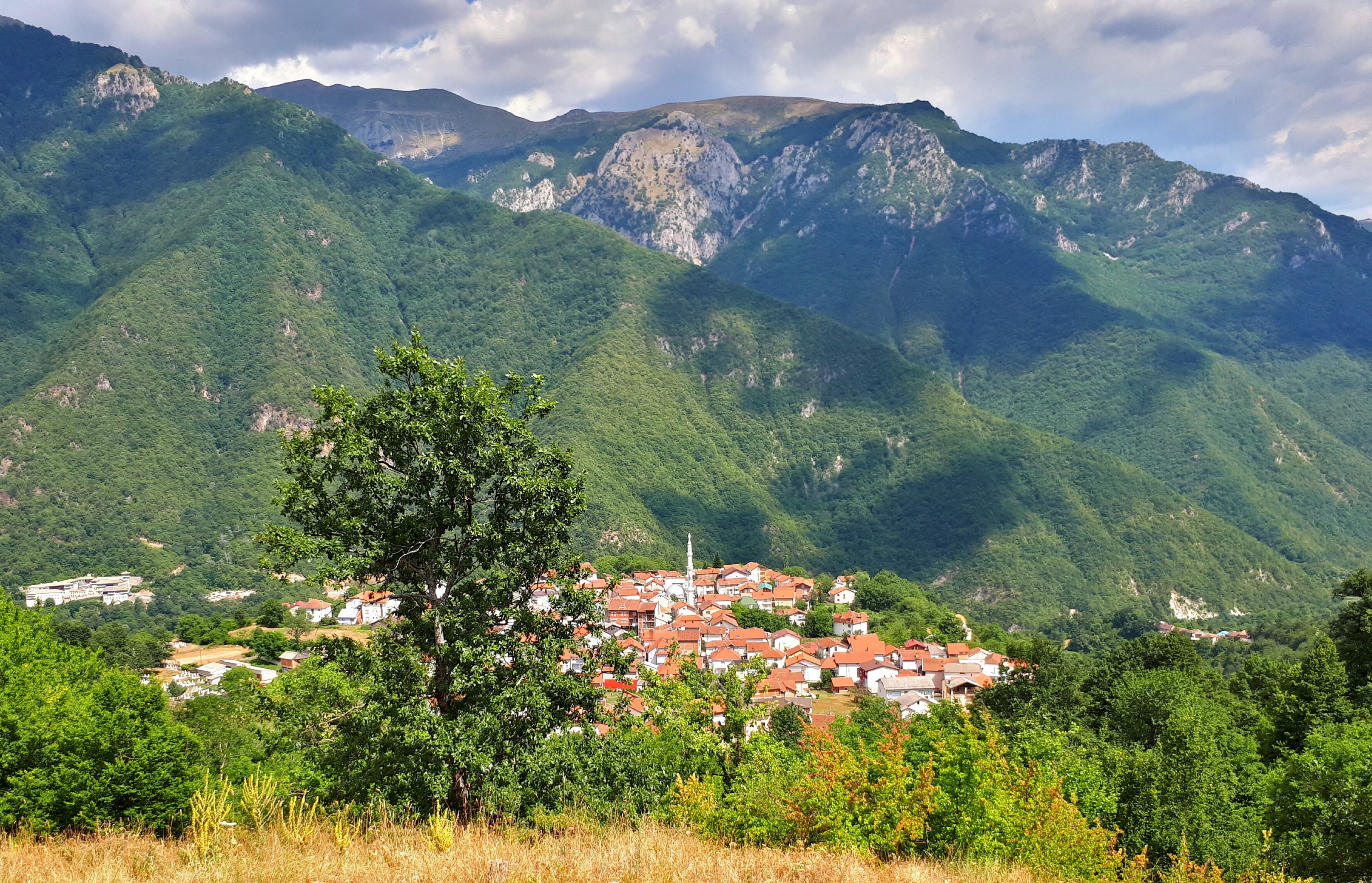 Taken during Wikiexpedition to Reka 2017